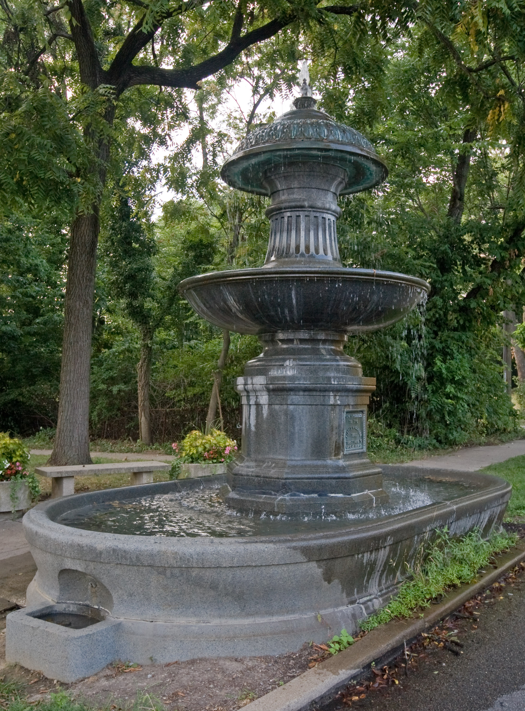 Probasco fountain taken by Greg Hume